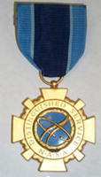 NASA Distinguished Service Medal